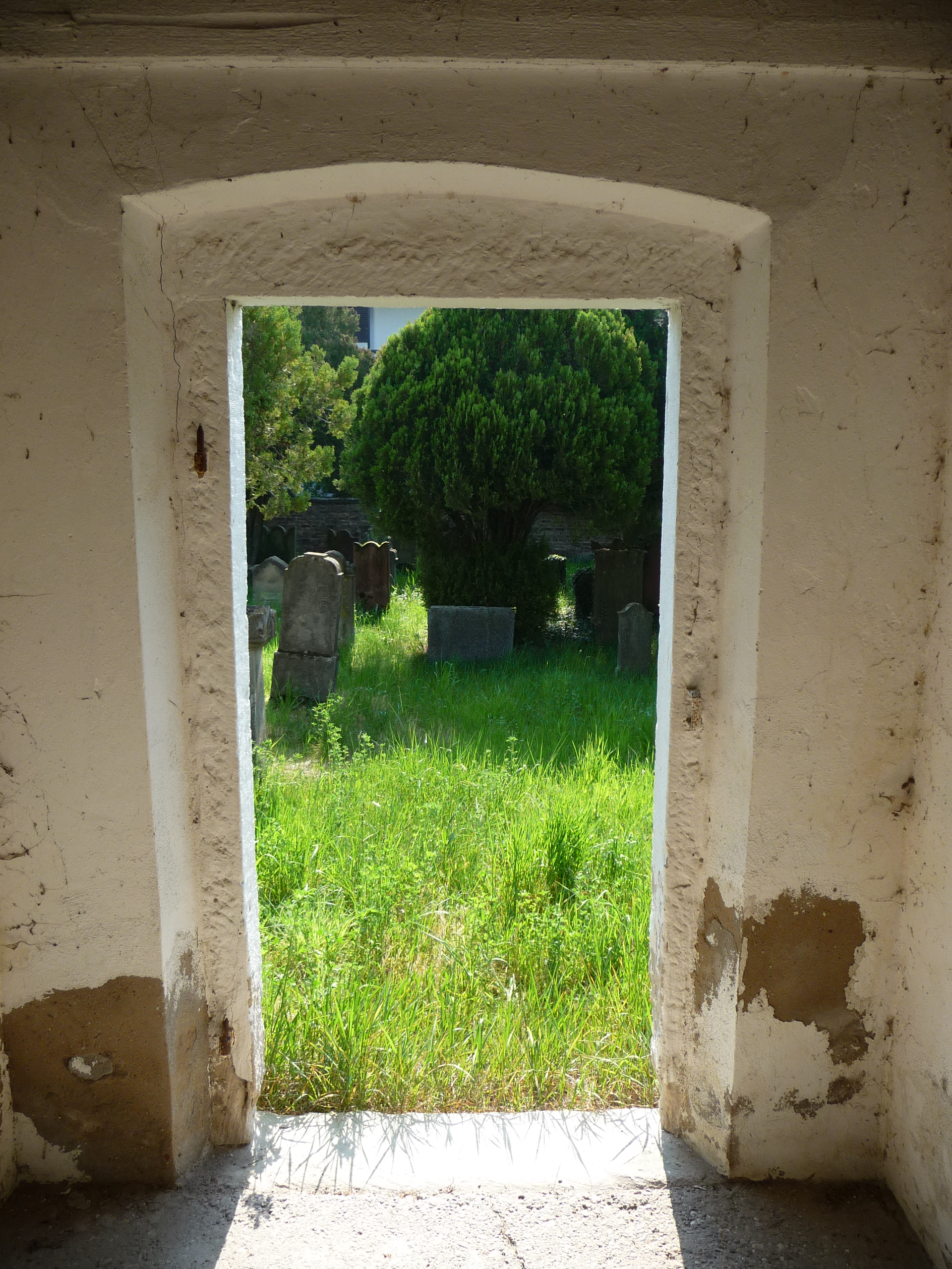 Judenfriedhof Otterstadt